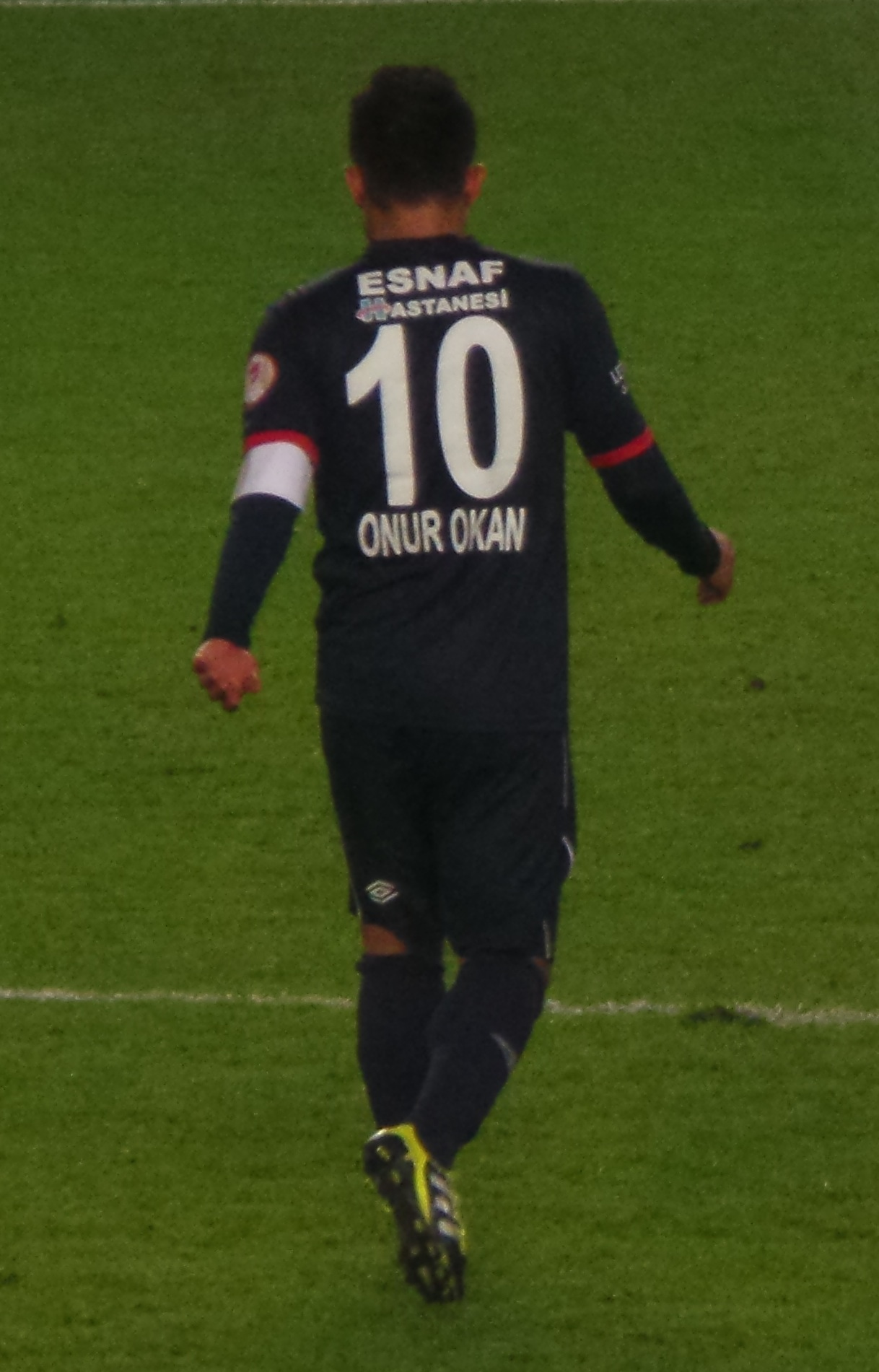 Onur Okan 10 numarayla FB maçında